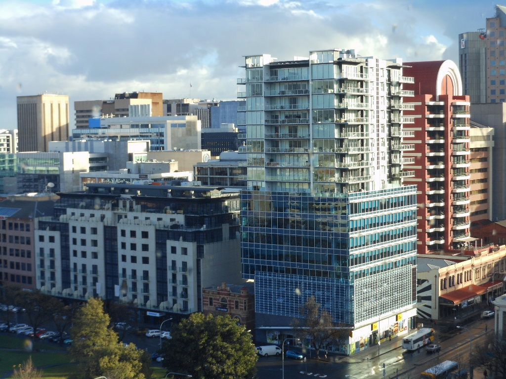 High rise developments in the Adelaide city centre. Cnr of Grenfell Street and Hindmarsh Square, looking south-west.